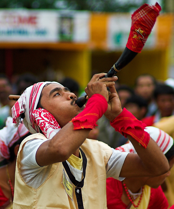 Bihu dancer with a blowhorn